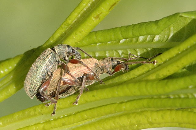 Picture taken in Commanster, Belgian High Ardennes . Species: Phyllobius pyri couple